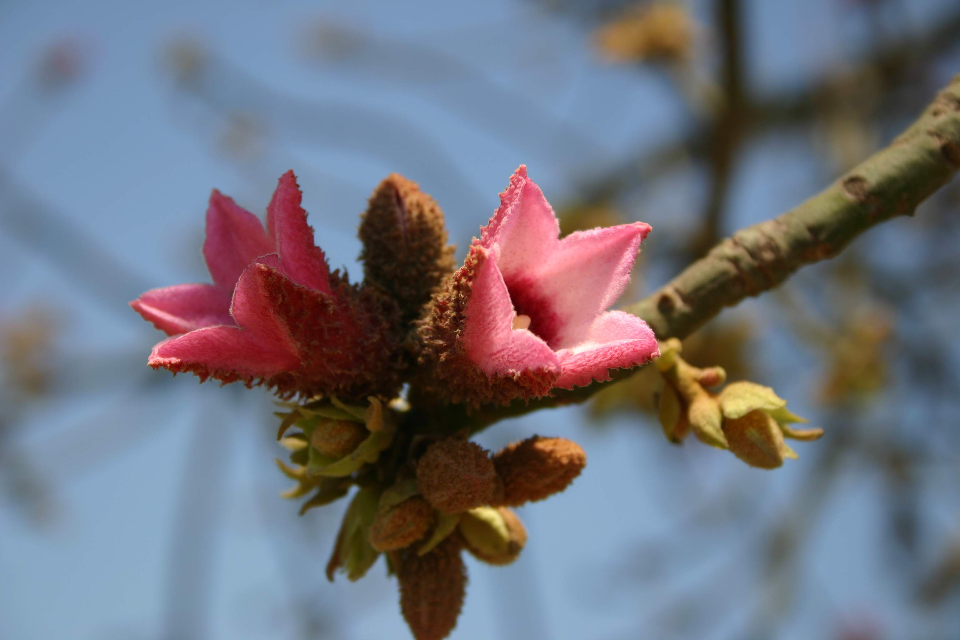 Brachychiton discolor flowers - Honeydew, Johannesburg